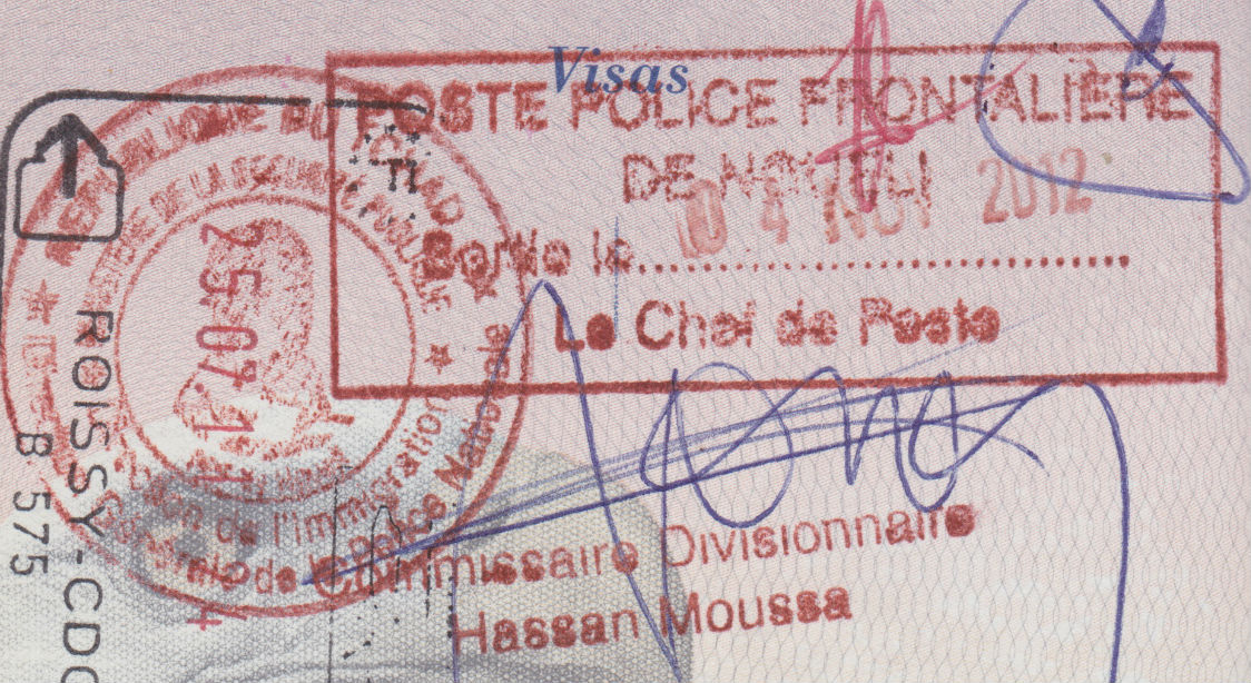 Chad exit passport stamp from 2012. Land crossing.